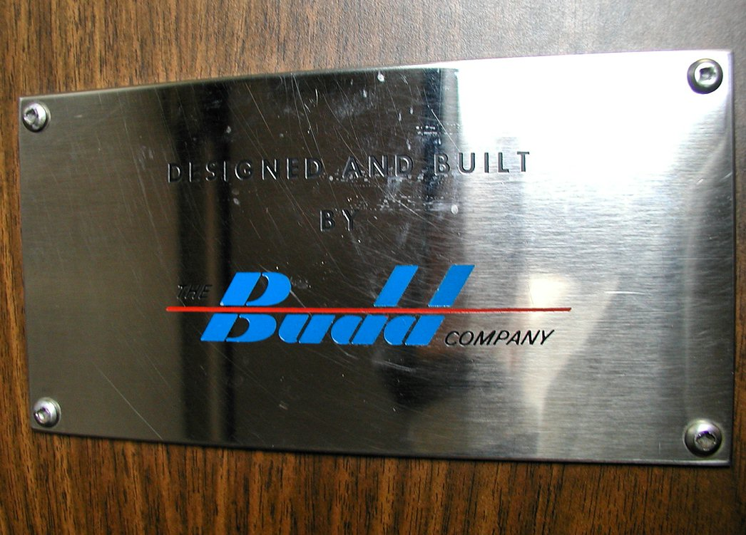 The famous Budd company logo on the builder's plate in a Metro North M-3 MU.